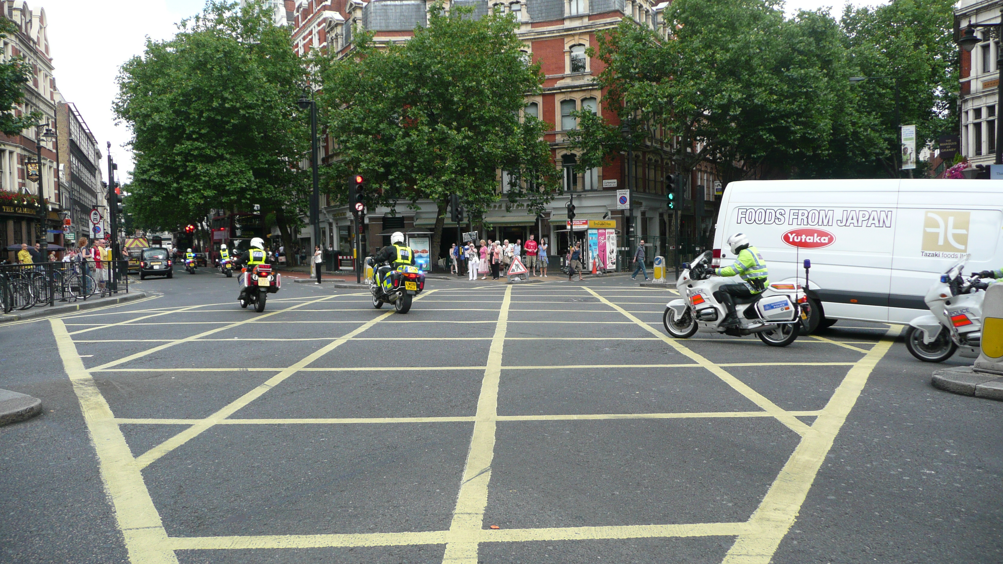 Six police motorcycles of the Metropolitan Police Service driving across Shaftesbury Avenue in London. They are using their blues and twos, hence they are going through a red traffic light.